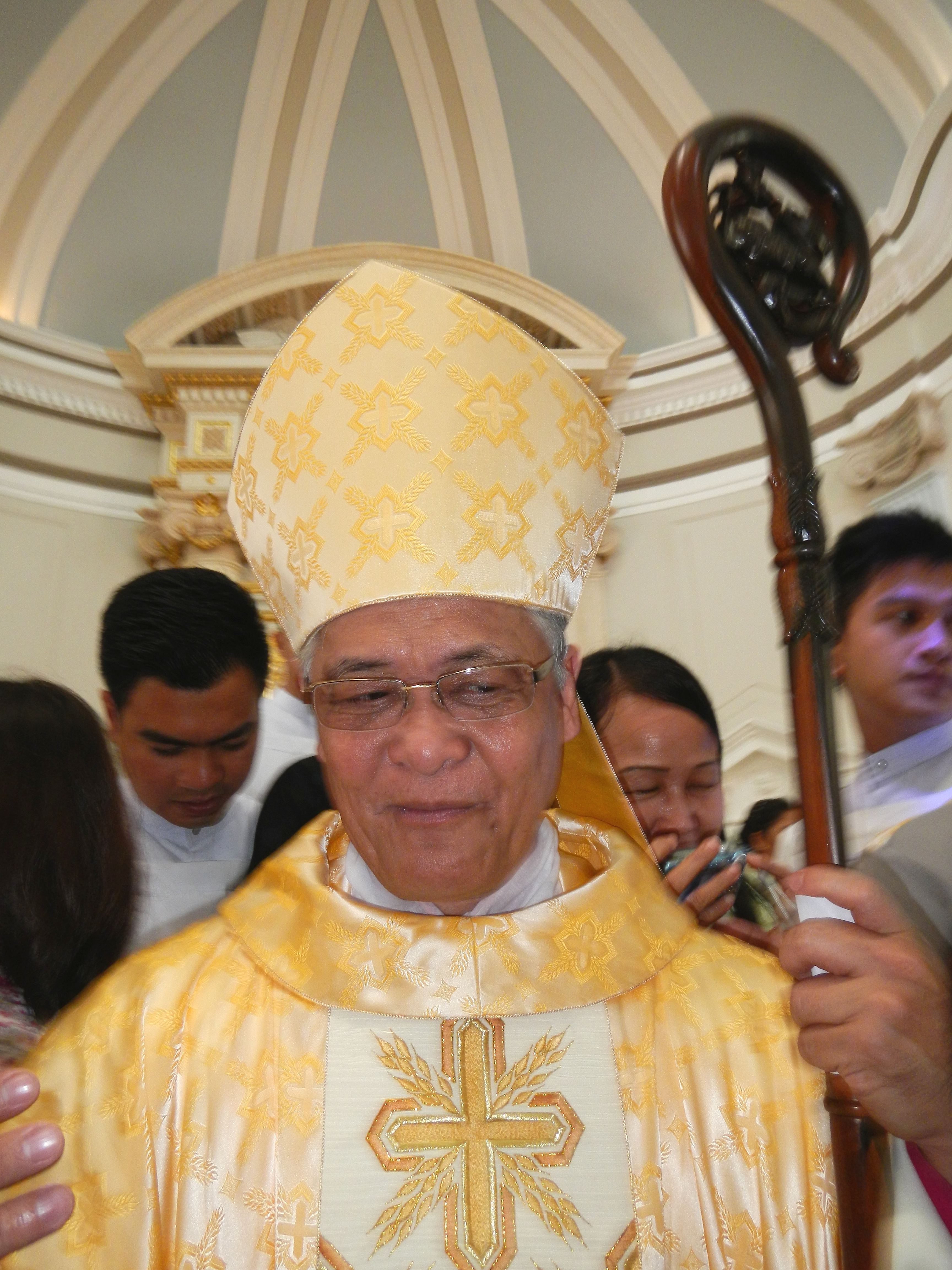 Florentino Lavarias Florentino Galang Lavarias, D.D The Most Reverend Florentino Lavarias D.D. Archbishop-elect of San Fernando is the fourth and current Metropolitan Archbishop of the Roman Catholic Archdiocese of San Fernando succeeded Paciano Aniceto as the Archbishop of San Fernando. The Rite of Liturgical Reception and Canonical Possession of Florentino Lavarias as the Archbishop was held on October 27, 2014 at the Metropolitan Cathedral of San Fernando by Papal Nuncio Archbishop Giuseppe Pinto Apostolic Nunciature to the Philippines List of ambassadors to the Philippines Holy See.